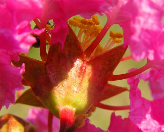 This close-up of a Crape Myrtle's flower shows the way its petals arise from the hypanthium on slender "claws".